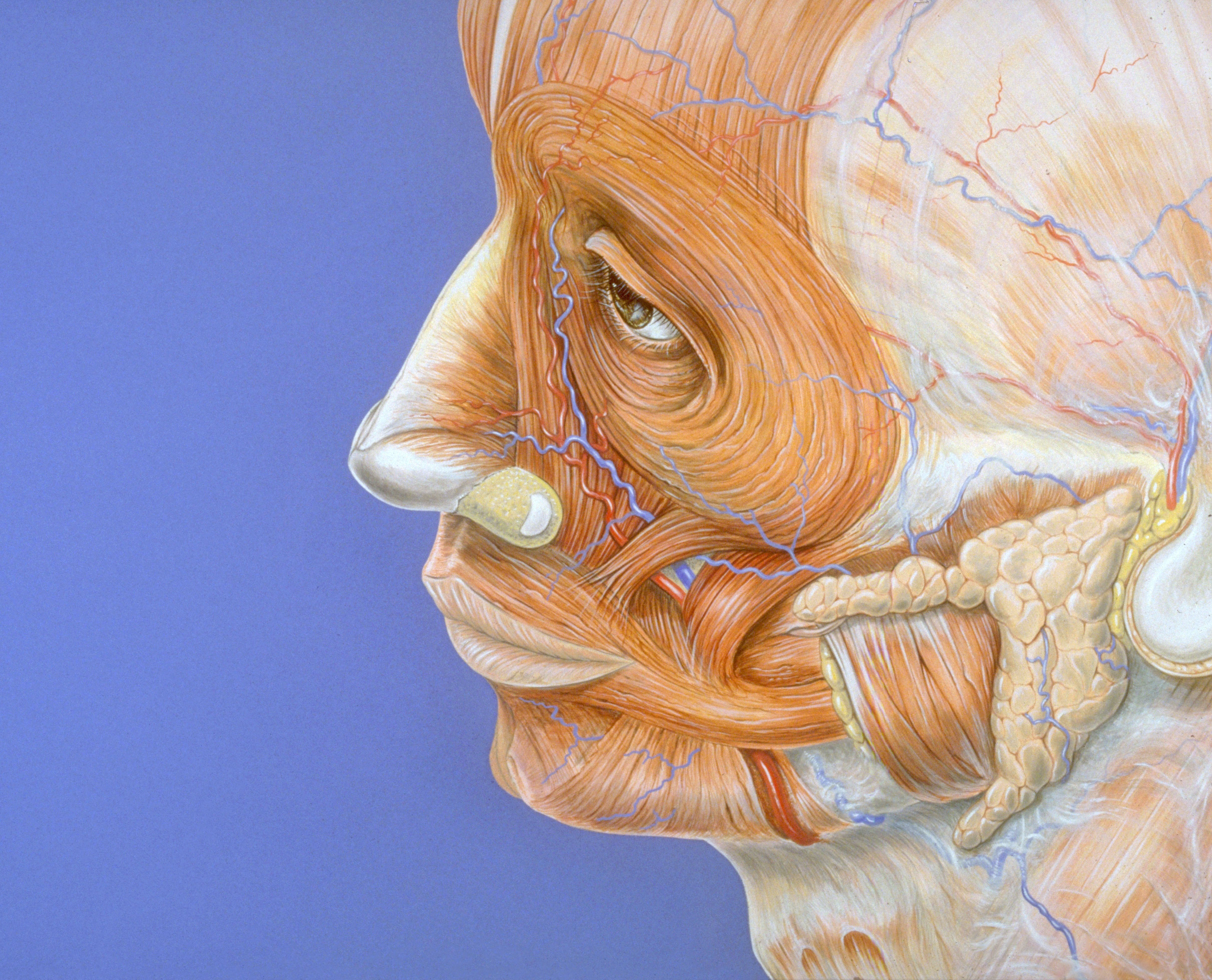 Superficial subcutaneous structures of the face and neck